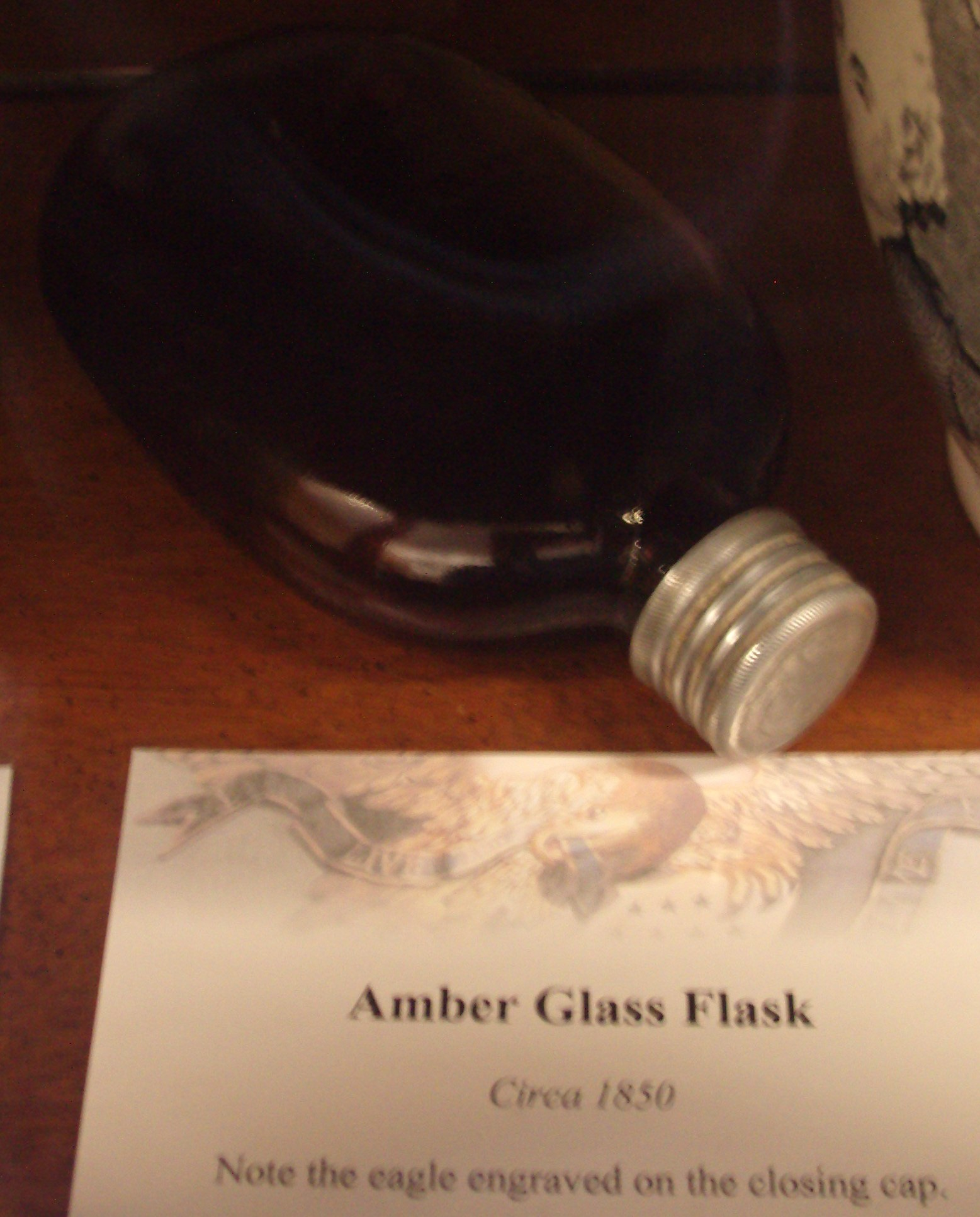 C. 1850 One of a series of my pictures taken of the temporary American Eagle Exhibit at Taylor University of works published before 1923.